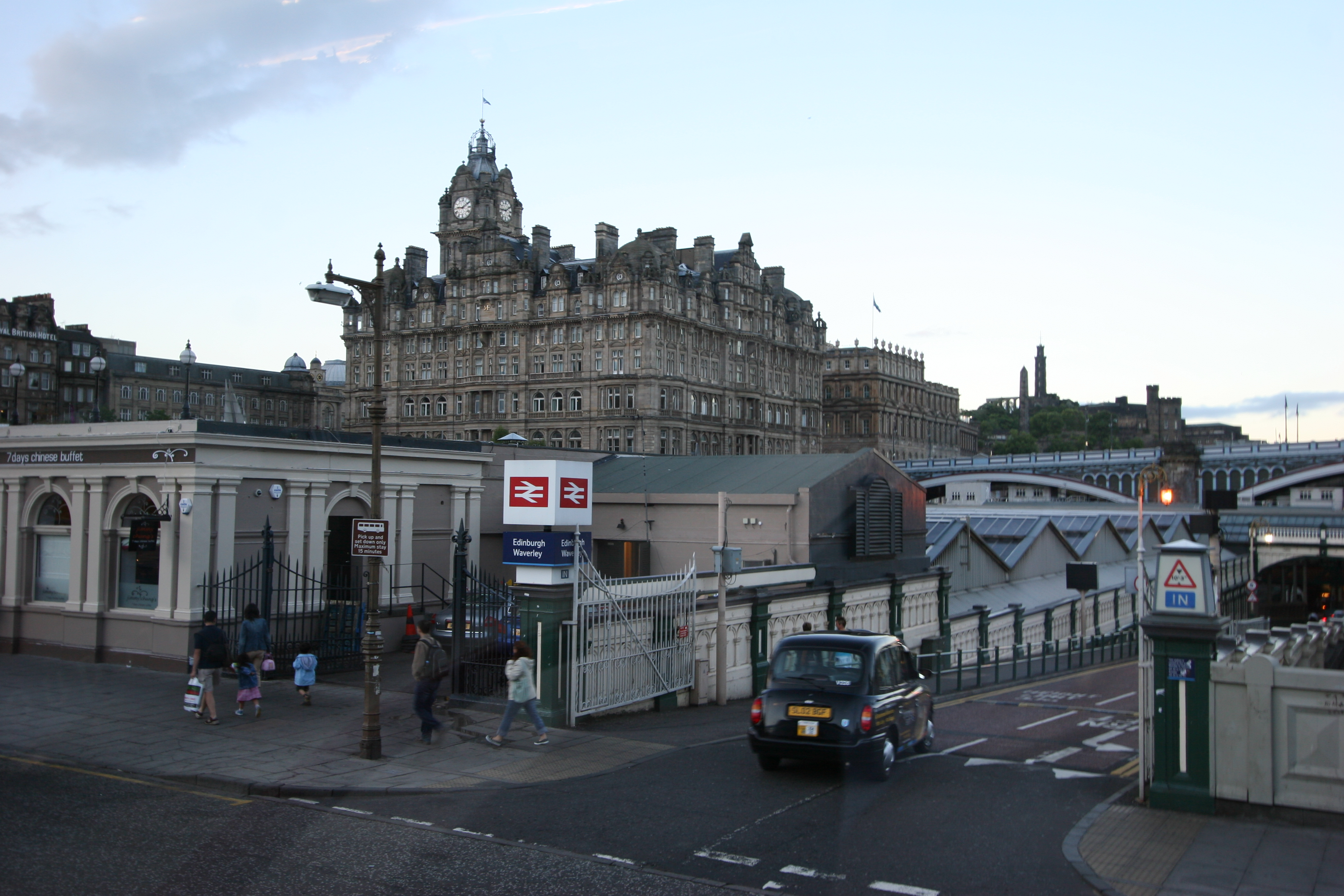 Edinburgh Waverley railway station